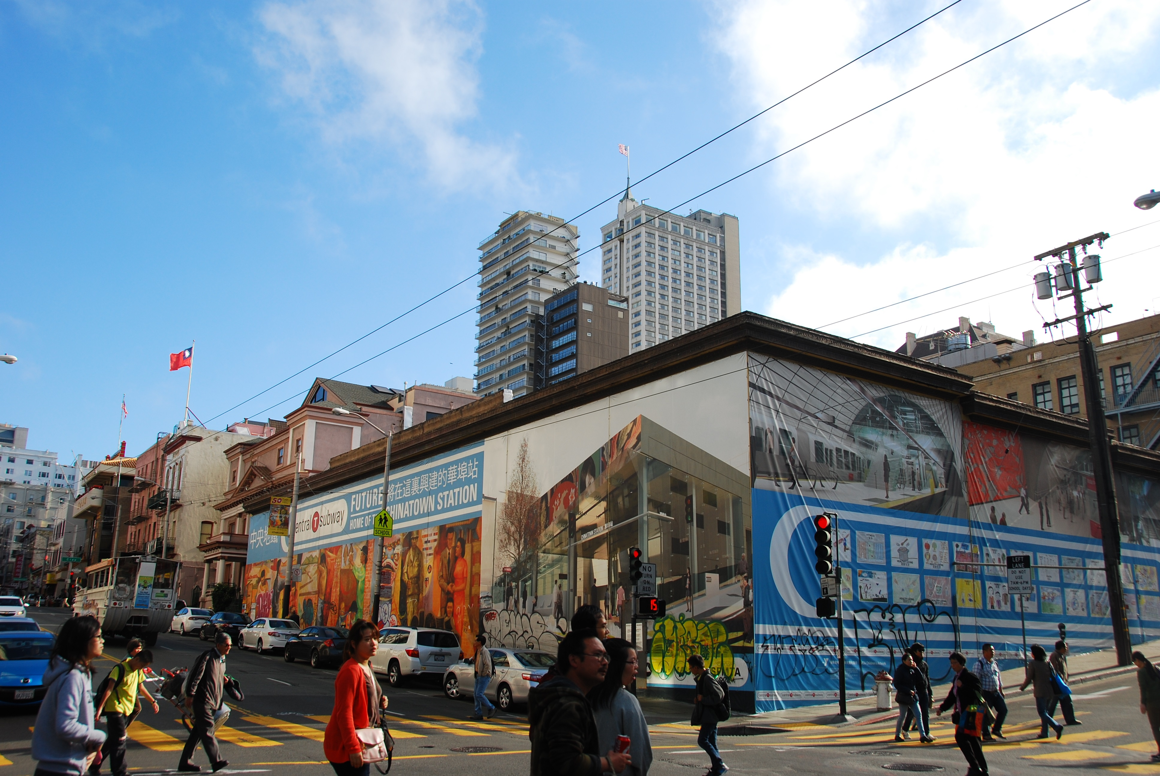 Chinatown Station construction site on the intersection of Stockton Street and Washington Street in San Francisco, California.